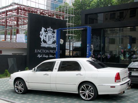 Hyundai Equus Limousine Version. (1st generation Equus)